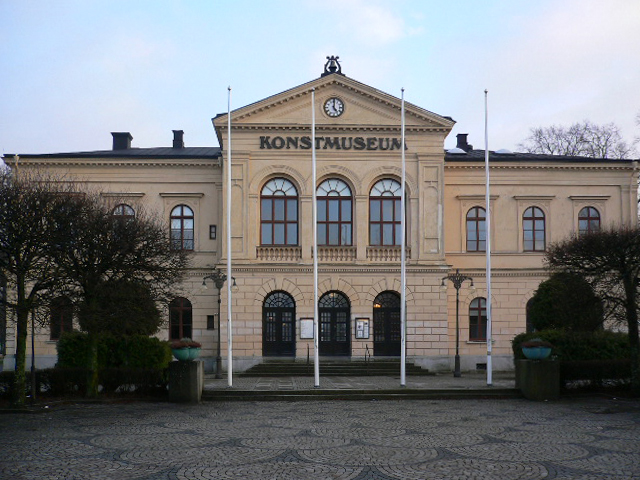 Västerås Art Museum until 2010, Västerås, Sweden. It was originally Västerås Town Hall.